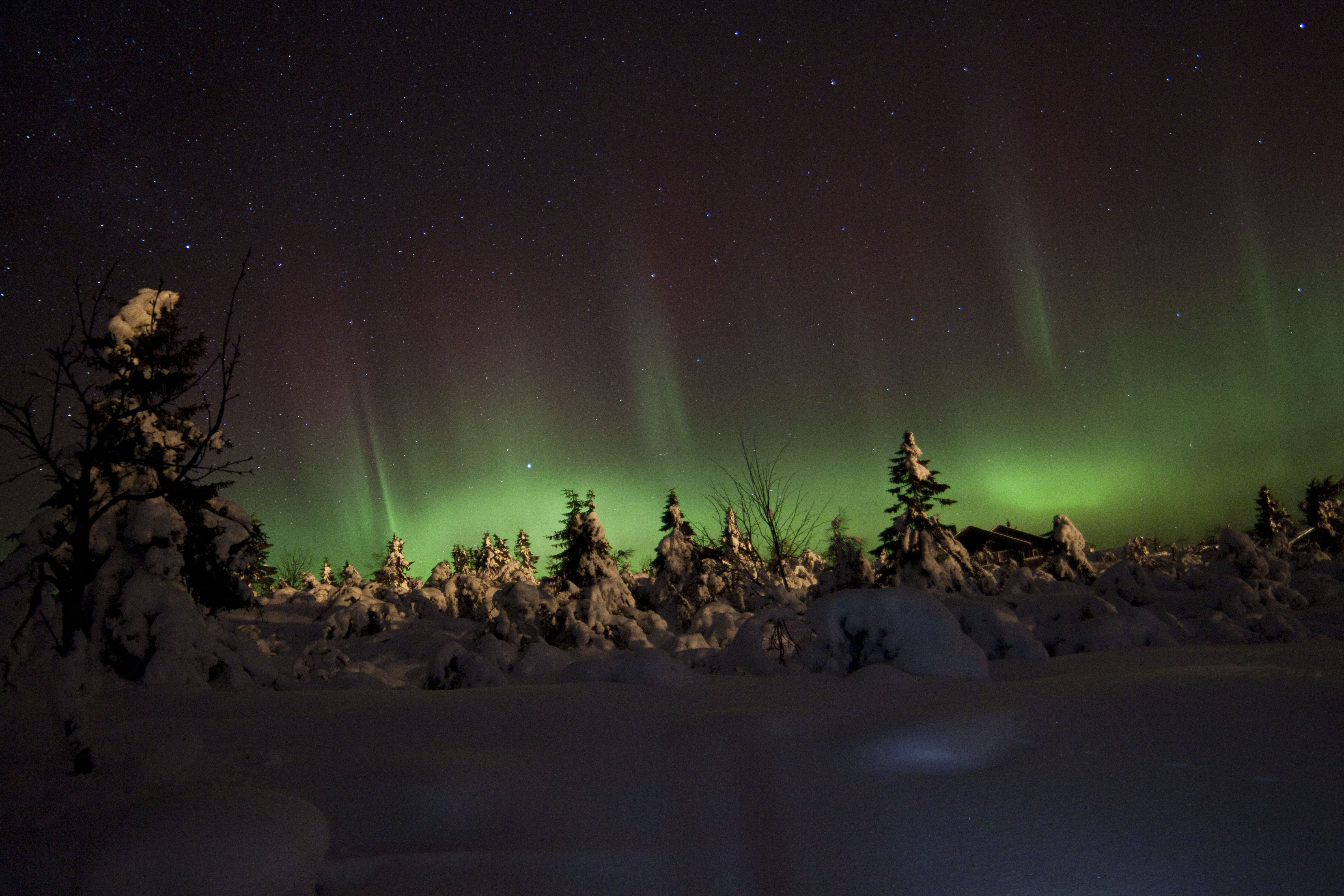 aurora borealis photographed in Trysil,Norway.